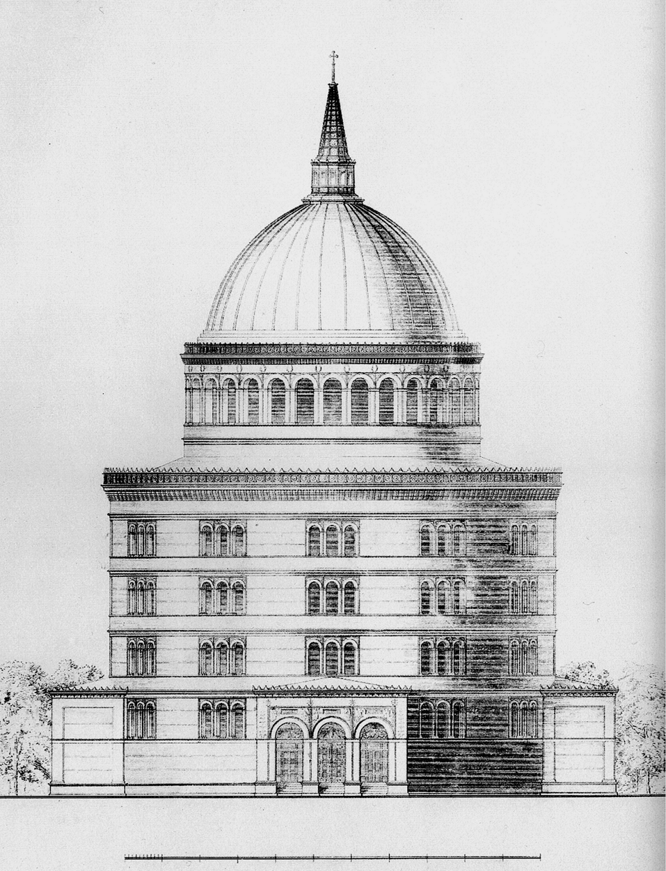 concept drawing for a cylindrical church with dome by the German architect Karl Friedrich Schinkel (copperplate engraving)